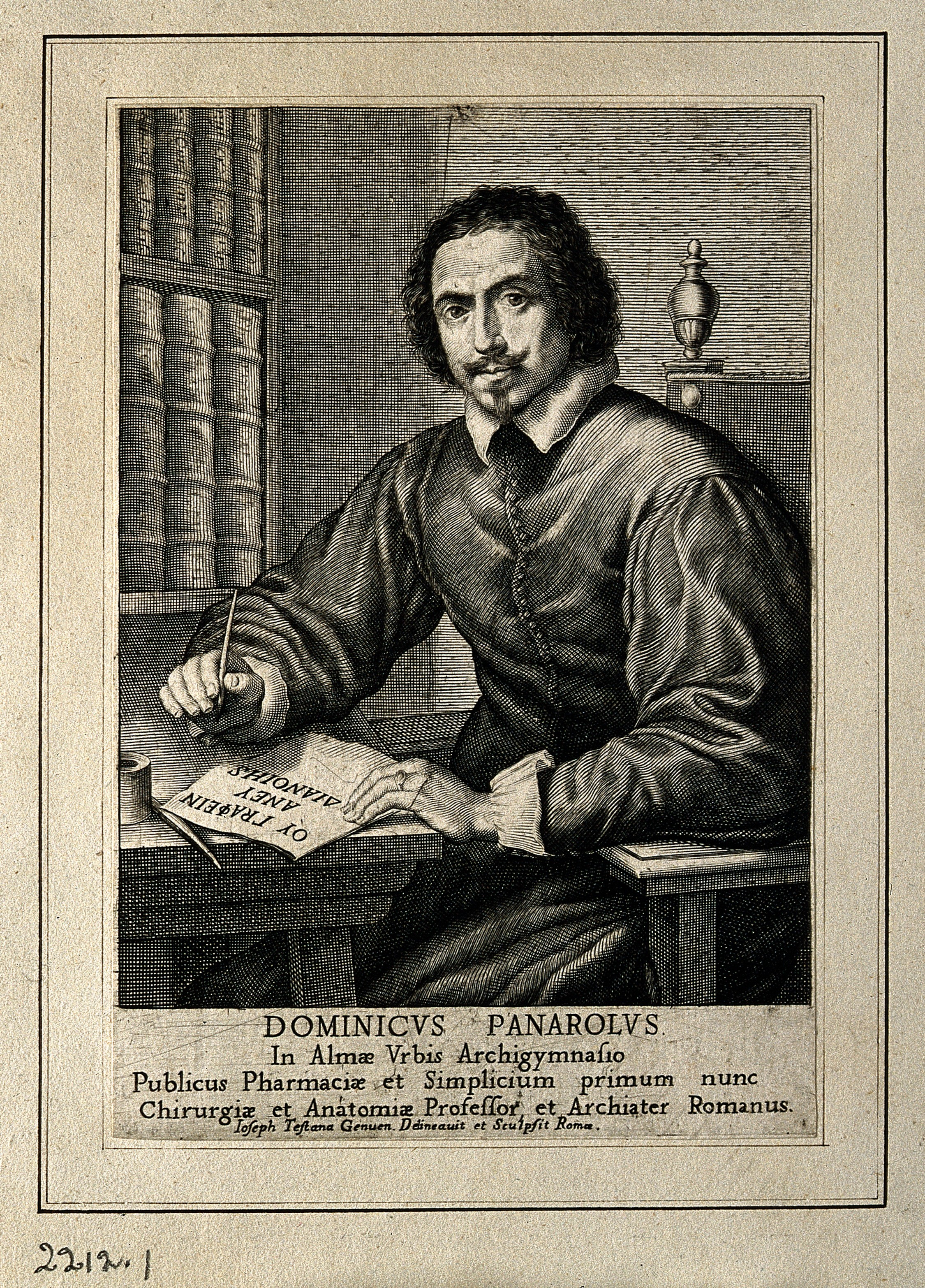 Domenico Panaroli. Line engraving by G. M. Testana after himself. Iconographic Collections Keywords: portrait prints; engravings; Domenico Panaroli